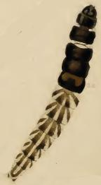 Stainton’s Natural History of the Tineina (1855–1873): Helcystogramma rufescens